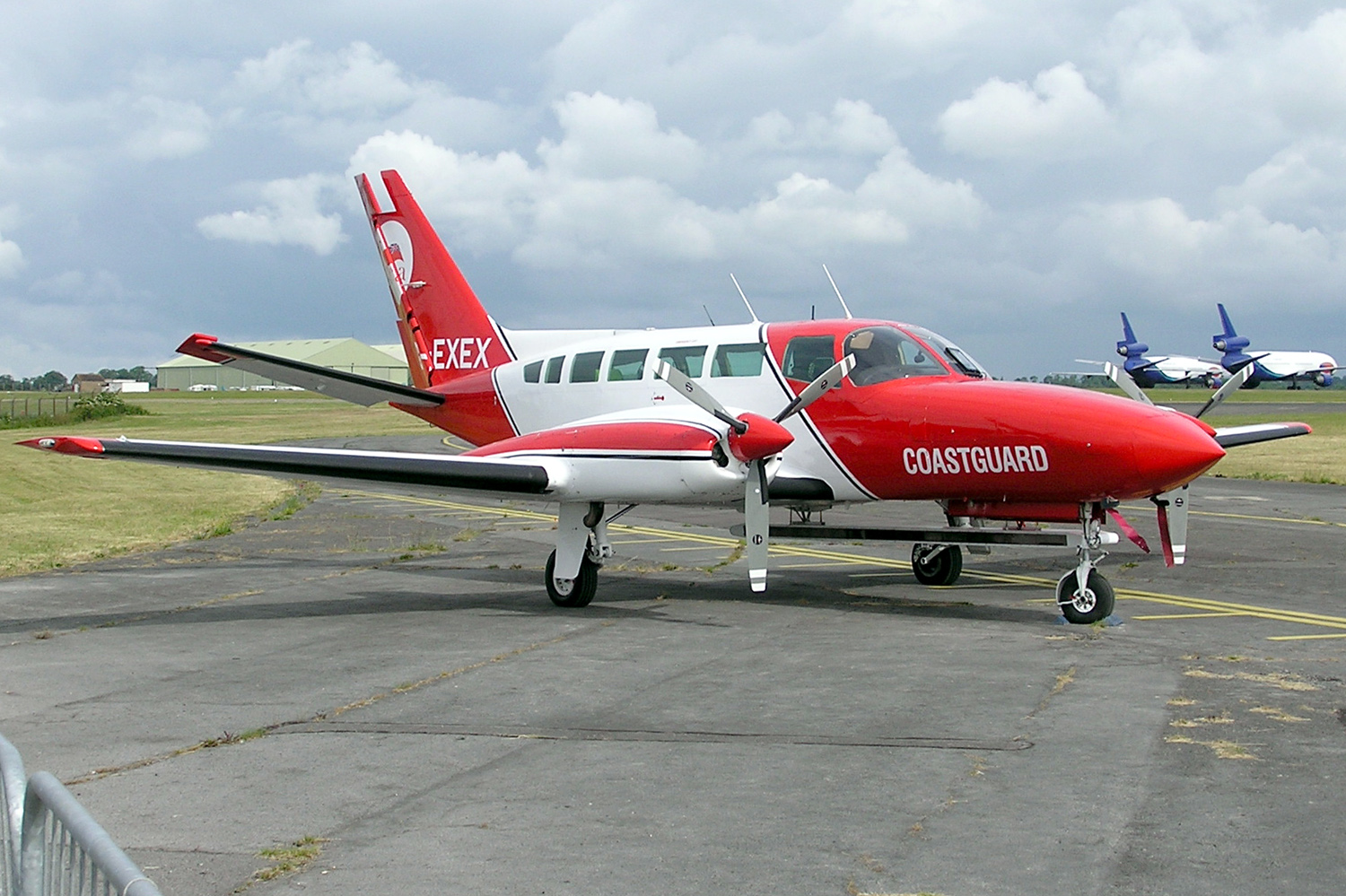 1977 Cessna 404 Titan II (G-EXEX) at Kemble airfield, Gloucestershire, England. Operated by RVL. The just-visible MCA on the fin stands for Maritime and Coastguard Agency, one of RVLs major UK clients. Note the long radar underneath to assist detection of sea pollution. Photographed by Adrian Pingstone in June 2004 and placed in the public domain.